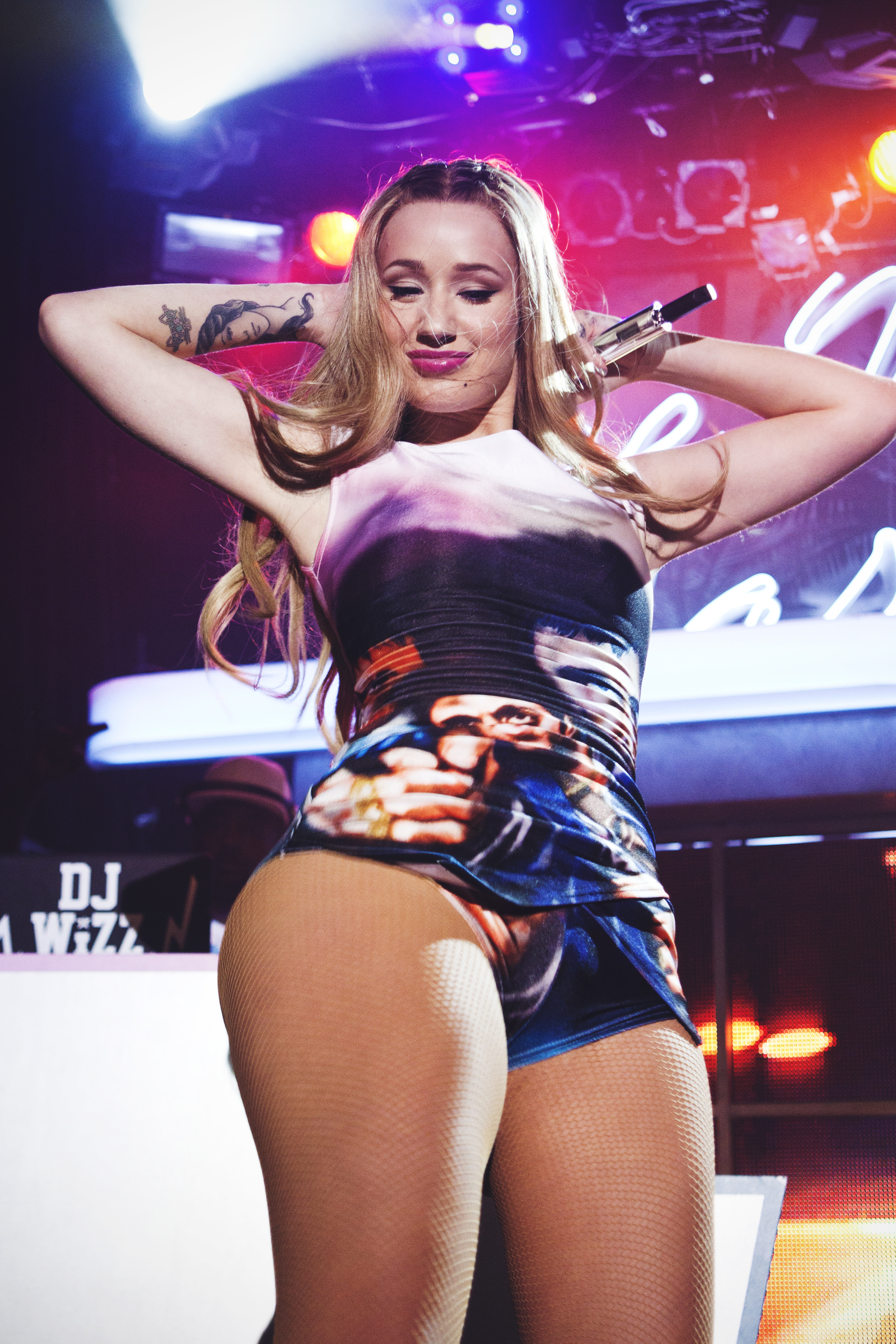 FOR USE